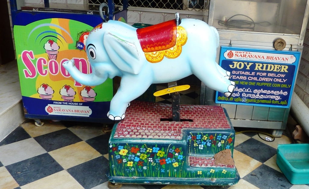 I took this photo on a trip to India in 2010